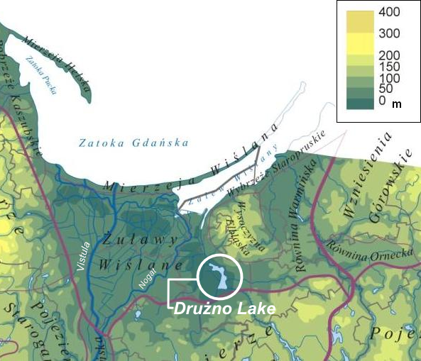 Location of the Drużno Lake. Map based on Image:Regiony Kondrackiego-hipsometria.jpg.